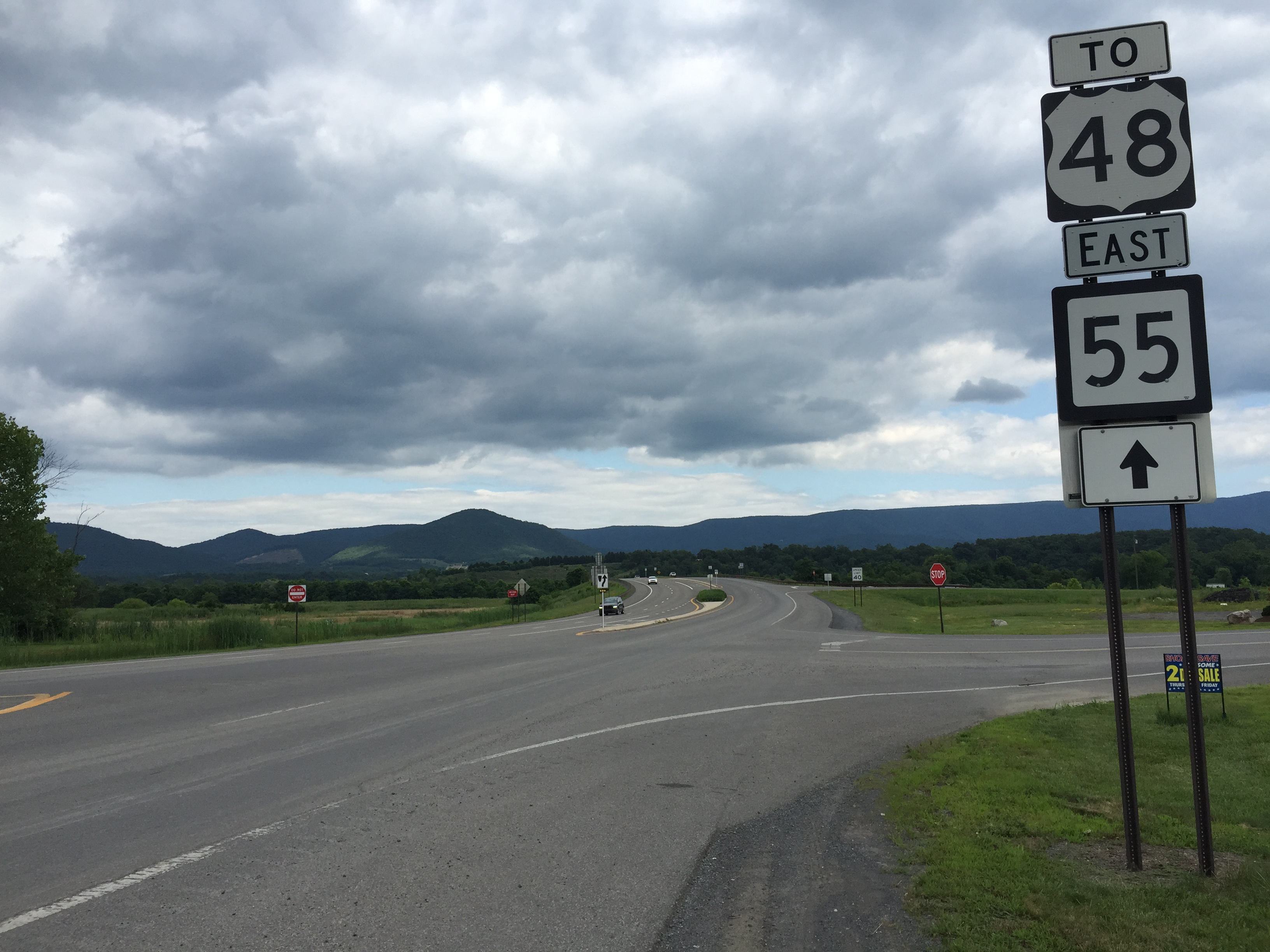 View east along West Virginia State Route 55 just east of U.S. Route 220 and West Virginia State Route 28 (Main Street) in Moorefield, Hardy County, West Virginia